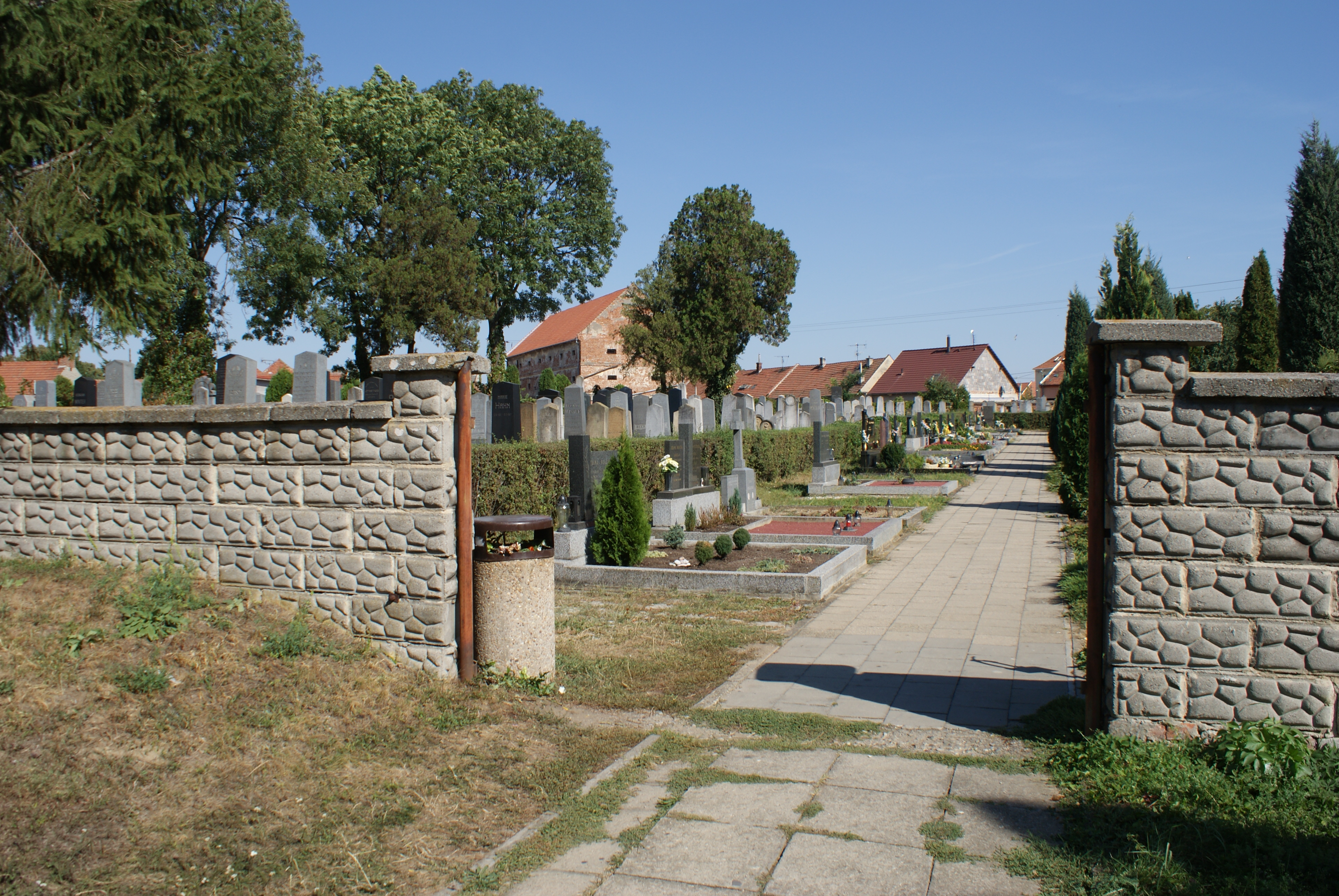 Jewish cemetery in Uherský Ostroh, Uherské Hradiště district, Czech Republic.